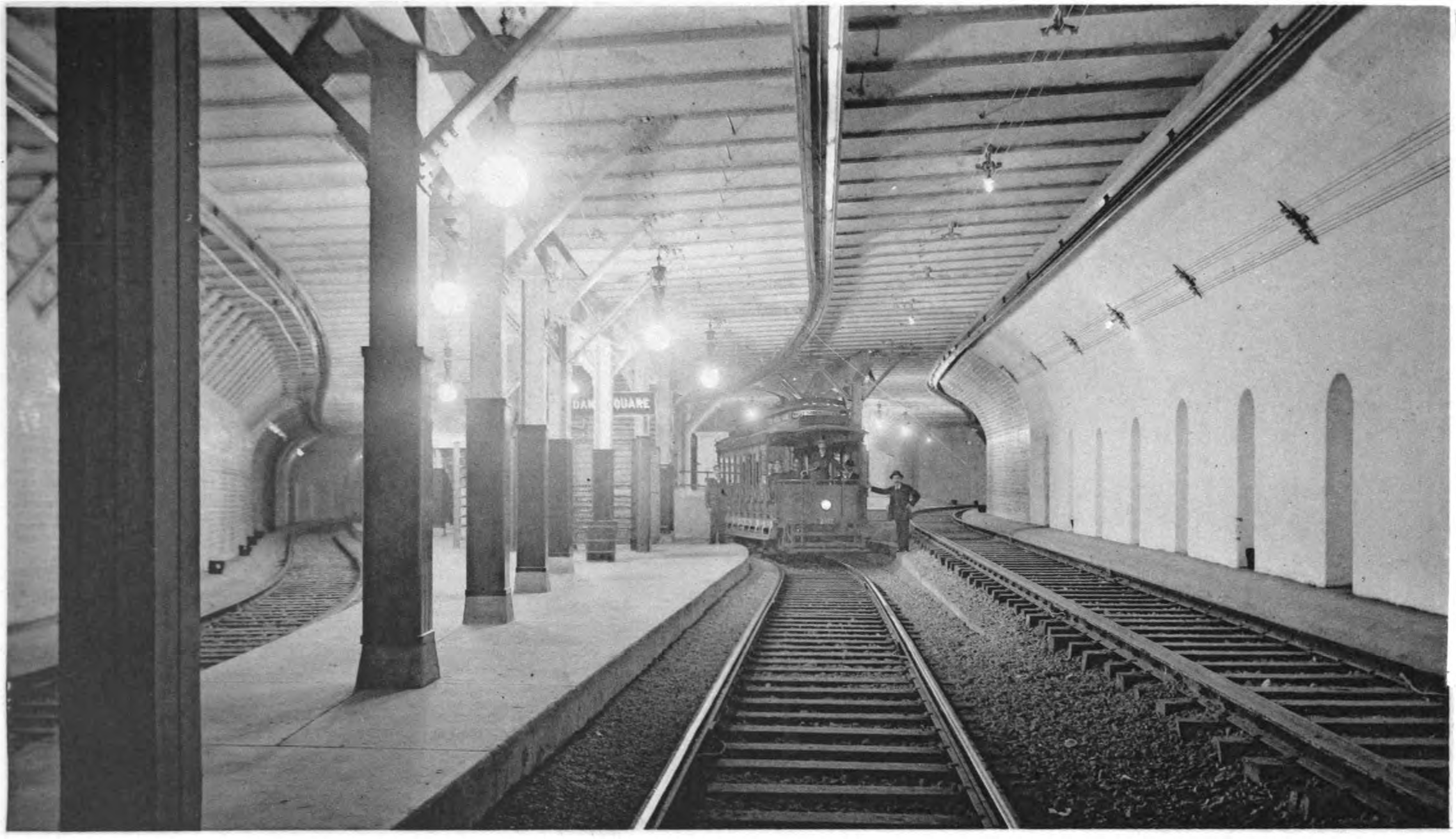 Interior of Adams Square station in the Tremont Street Subway, shortly before its 1897 opening. The northbound platform is to the left, with the southbound platform (original Brattle Loop terminus) in the back right.